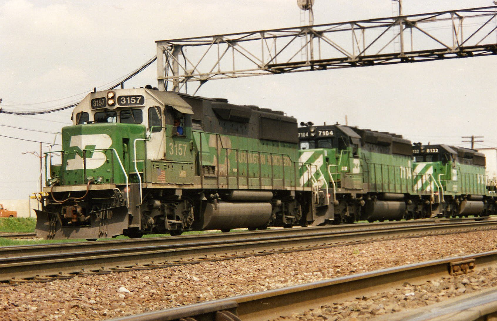 BN 3157, an EMD GP50, leads a westbound train through Eola (just east of Aurora, Illinois).